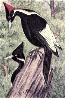 Ivory-billed Woodpecker